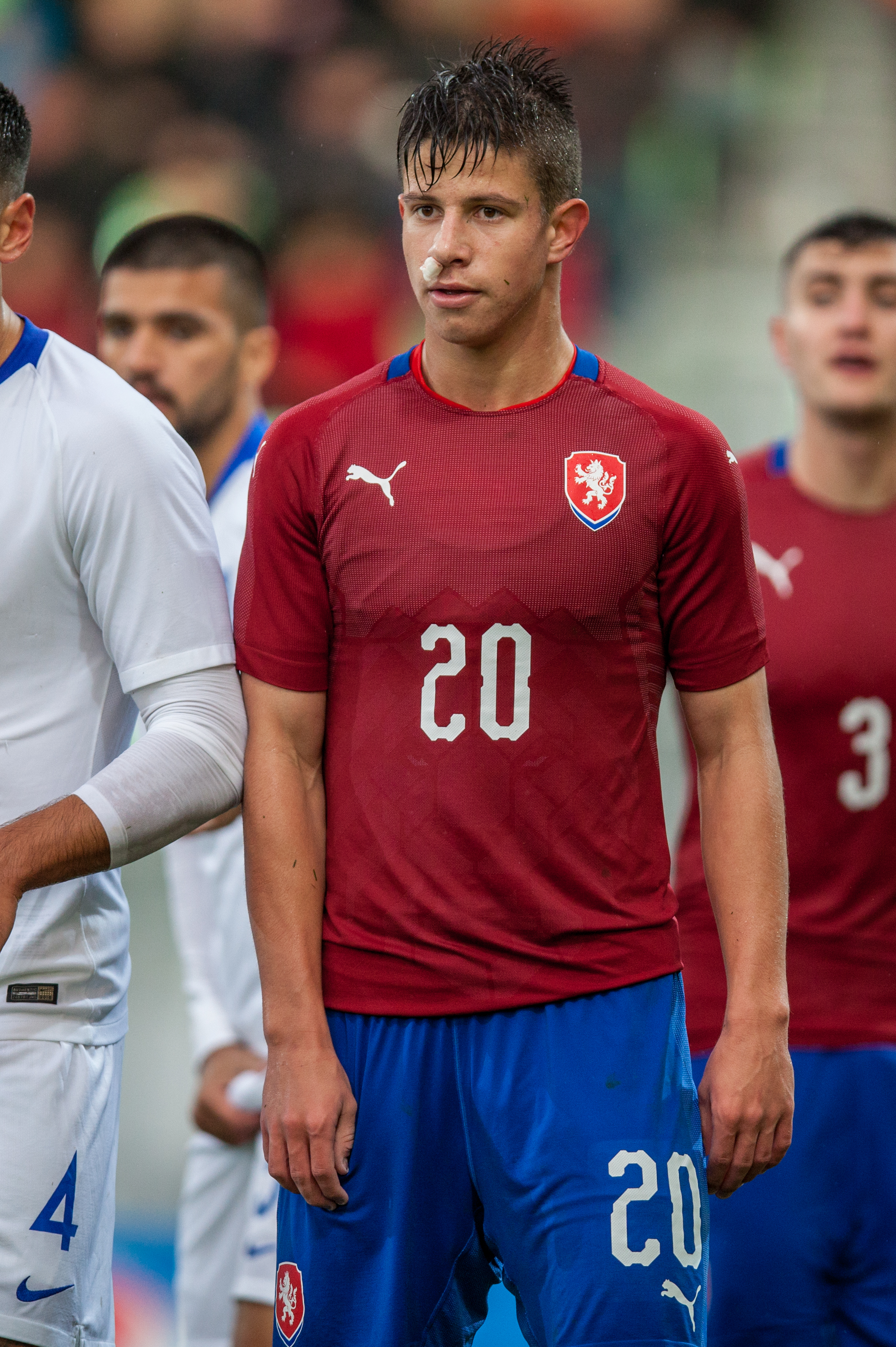 Dimitris Nikolaou & Adam Hložek in an internatinoal association football match of European Under-21 Championship Qualifying Round between the Czech Republic and Greece, Městský stadion Karviná, Karviná District, Moravian-Silesian Region, Czechia Personality rights warningAlthough this work is freely licensed or in the public domain, the person(s) shown may have rights that legally restrict certain re-uses unless those depicted consent to such uses. In these cases, a model release or other evidence of consent could protect you from infringement claims.